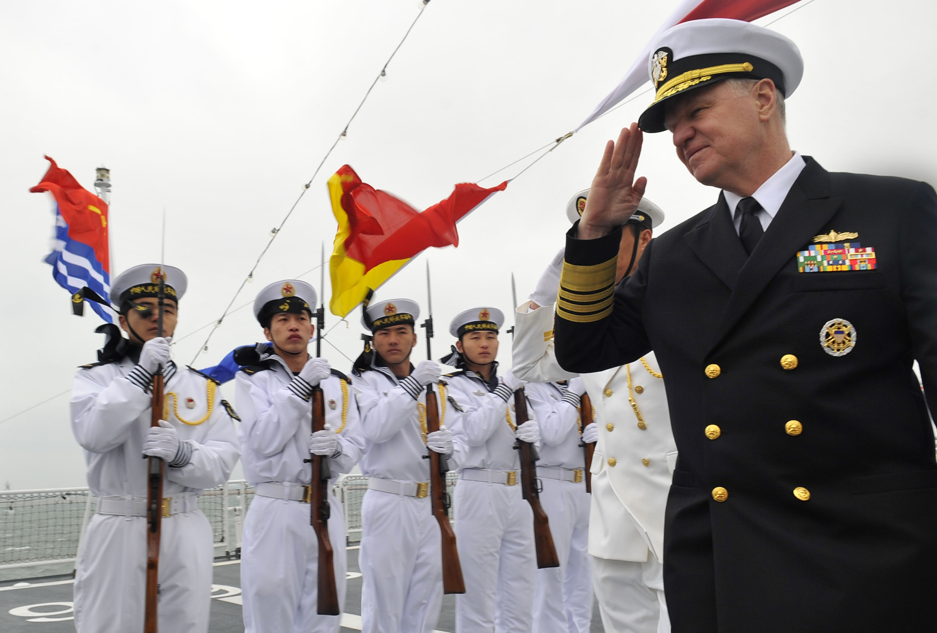 QINGDAO, China (April 20, 2009) Chief of Naval Operations (CNO) Adm. Gary Roughead, right, salutes Sailors of the People's Liberation Army Navy type 920 hospital ship Daishandao (AHH 866) in Qingdao, China. Roughead visited China to participate in the 60th anniversary of the founding of the PLA Navy and to foster naval and military relationships between the two nations and explore areas for enhanced cooperation. (U.S. Navy photo by Mass Communication 1st Class Tiffini M. Jones/Released)